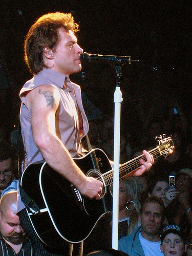 Jon Bon Jovi singing 'Bed Of Roses' during 'Lost Highway' concert in Montreal, November 2007